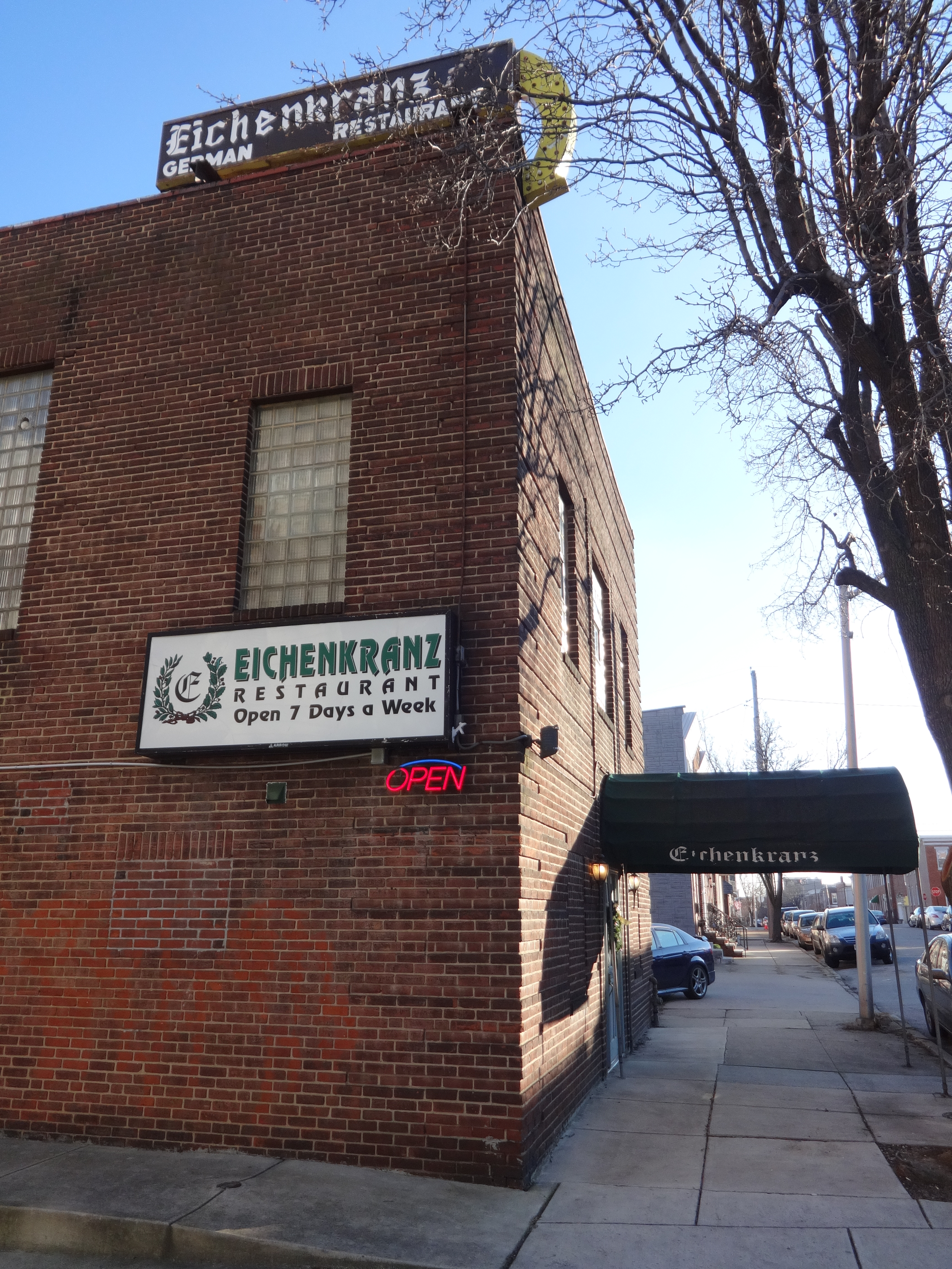 Eichenkraz Restaurant, Highlandtown, Baltimore.